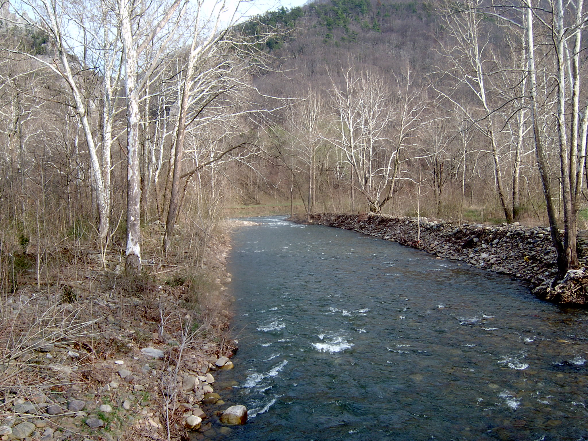 Mouth of Seneca Creek — at Seneca Rocks, in the Spruce Knob-Seneca Rocks National Recreation Area, West Virginia. Tributary of the Potomac River watershed.